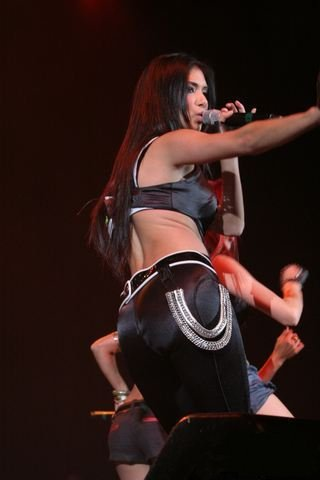 Nicole Scherzinger at the Tacoma Dome in Washington.